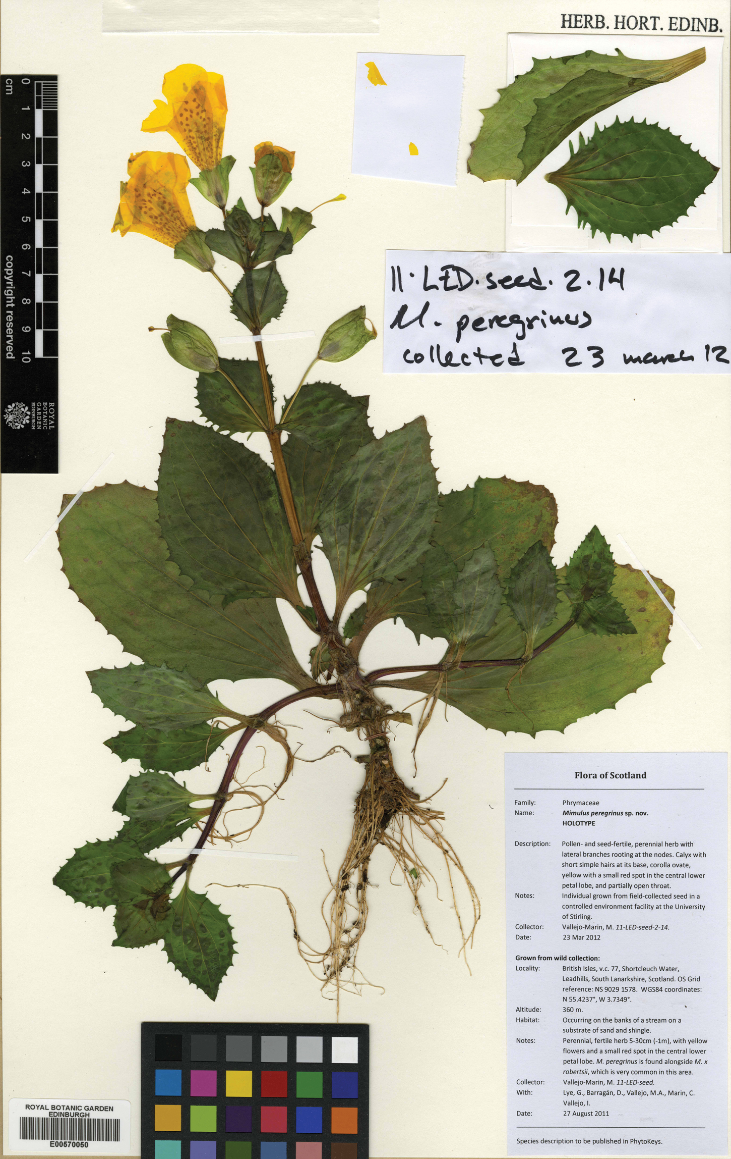 Holotype of Mimulus peregrinus Vallejo-Marin [11-LED-seed-2-14; barcode E00570050].